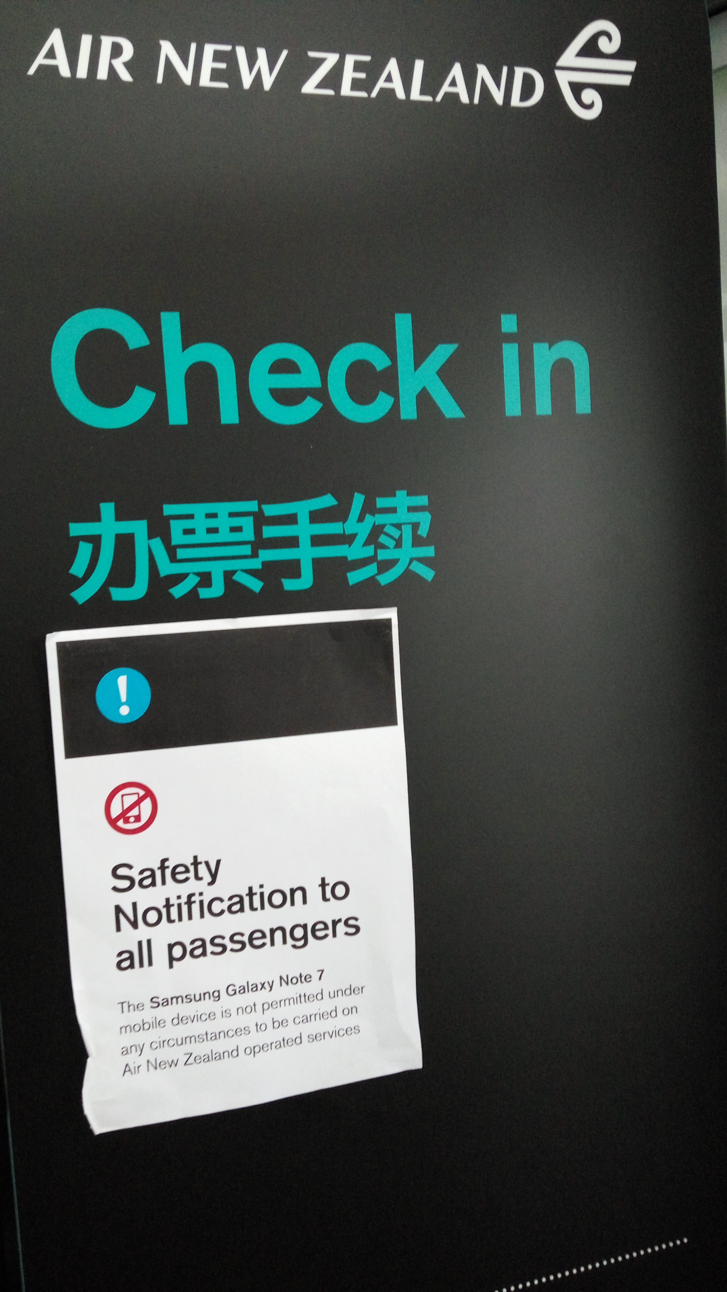 A sign at the Air New Zealand check-in counter in Shanghai's Pudong International Airport warning passengers not to bring Samsung's Galaxy Note 7 phone onto any flight due to problems with that phone's battery.